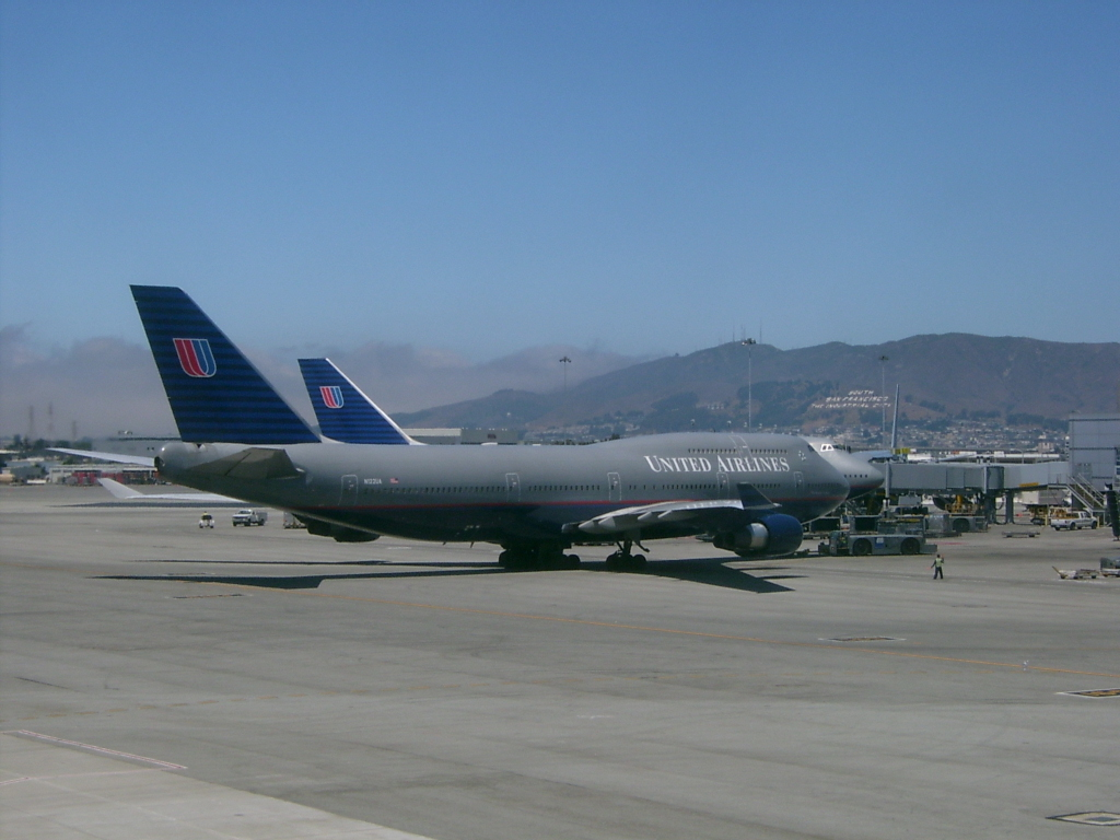 United Airlines 747-400s in the old livery at San Francisco International Airport